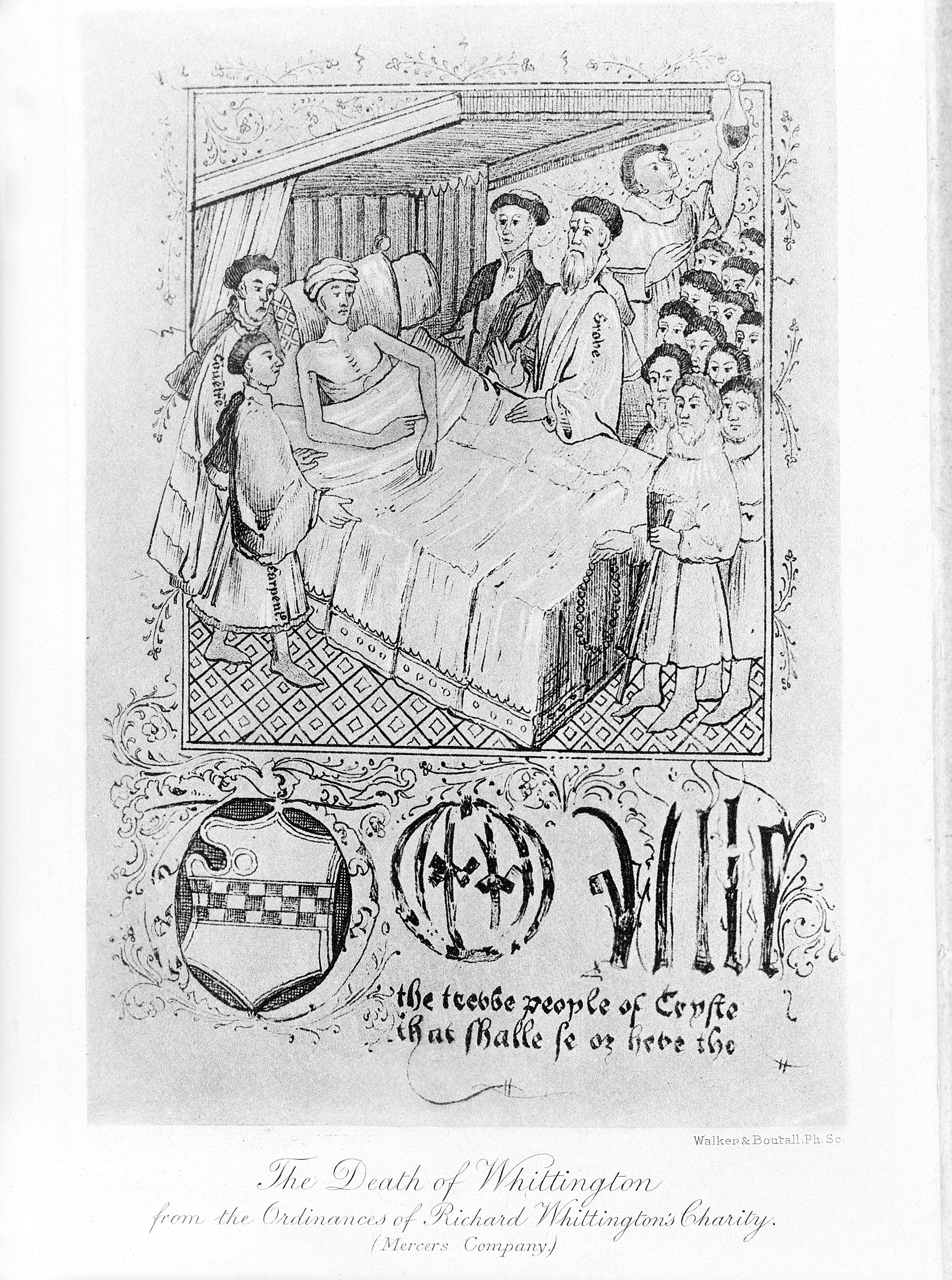 Sir Richard Whittington on his deathbed, with executors, doctor examining urine-flask, and crowd of beneficiaries of his charity. Detail from ms/book "Ordinances of Richard Whittington's Charity", in possession of the Worshipful Company of Mercers, City of London. "((To alle (?)) the feeble people of Cryste that shalle se or here the ...". Depicting named persons, some mentioned in his will "I appoint as my executors of this my testament John Coventre, John White, clerk, John Carpenter, and William Grove, and as their supervisor William Babyngton".[1]Wellcome Images Keywords: Philanthropy; Urology; Richard Whittington